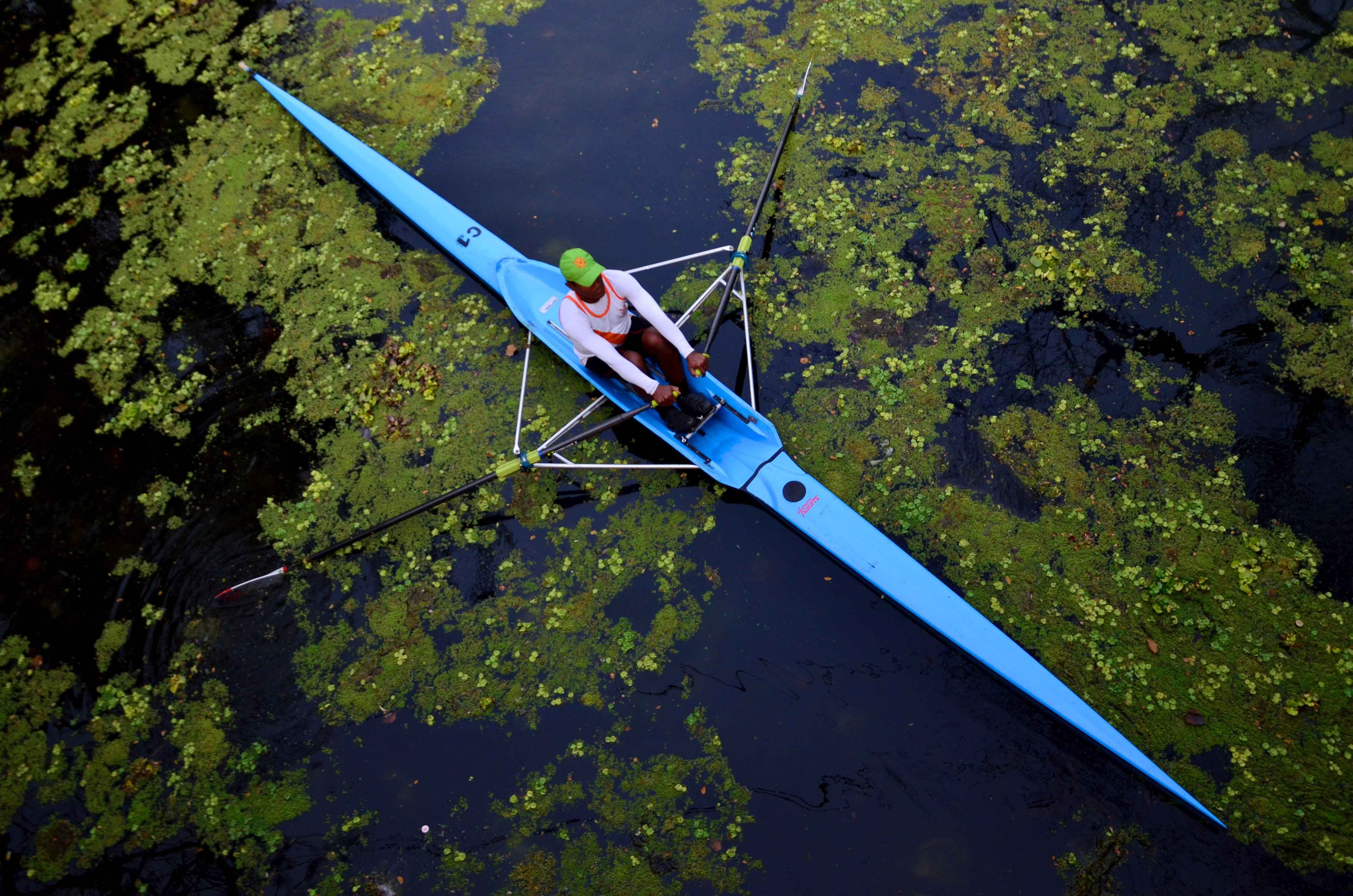 Rowing at BRC